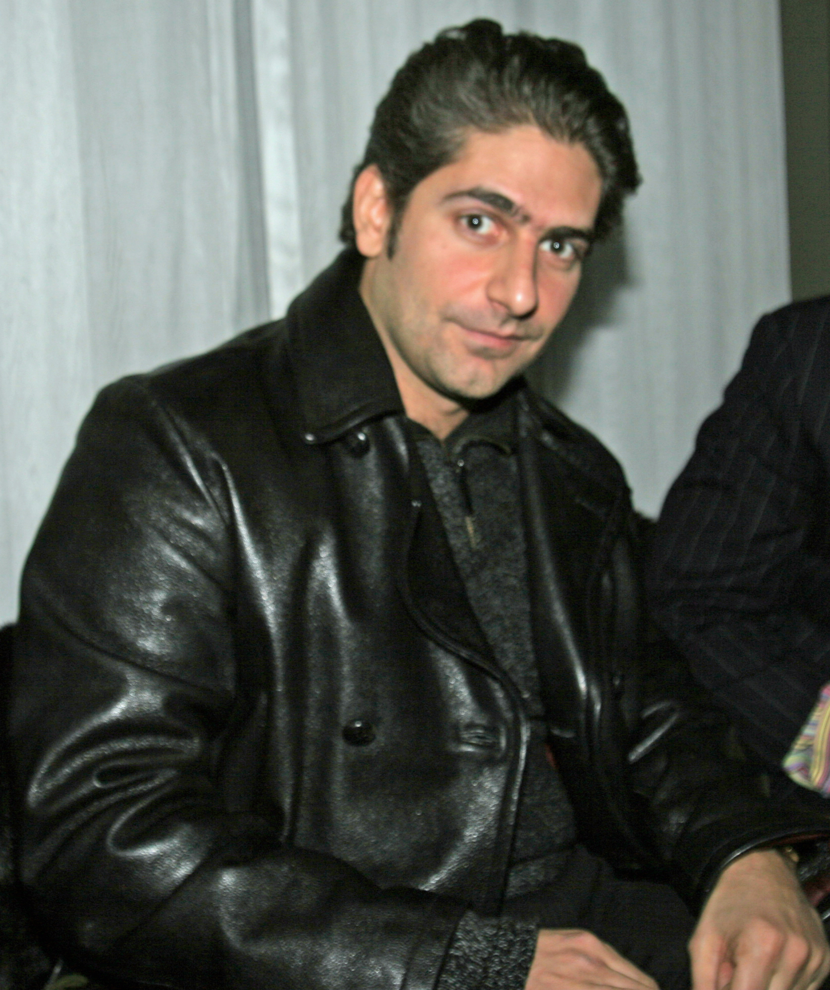 Michael Imperioli in February 2005.